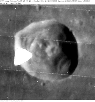 LO-IV-078H The white triangle is a defect in the Lunar Orbiter film.